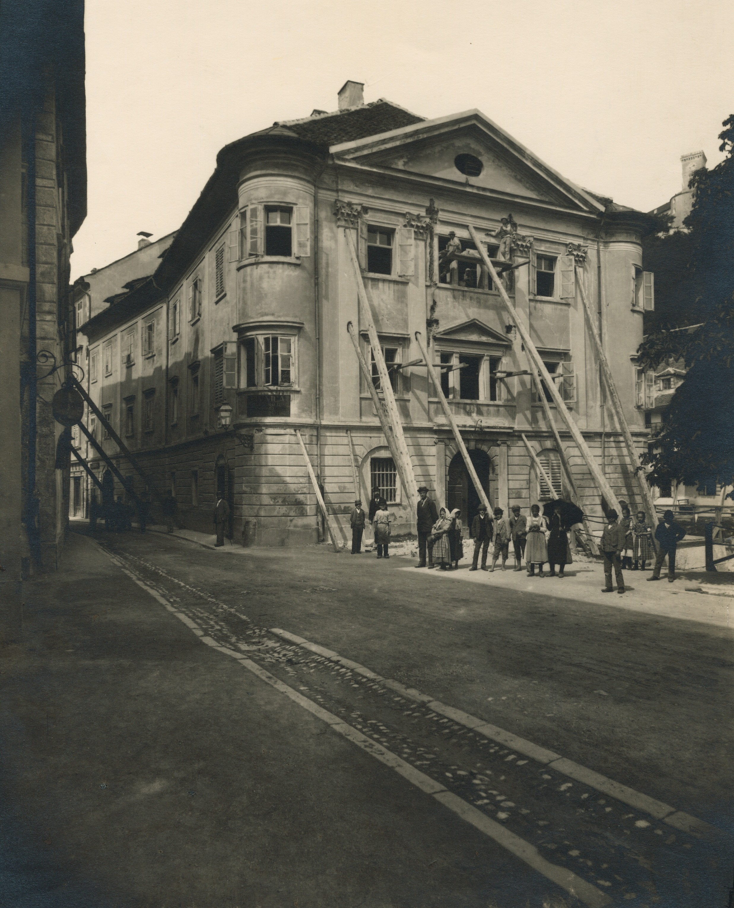 1895 Ljubljana earthquake by Helfer